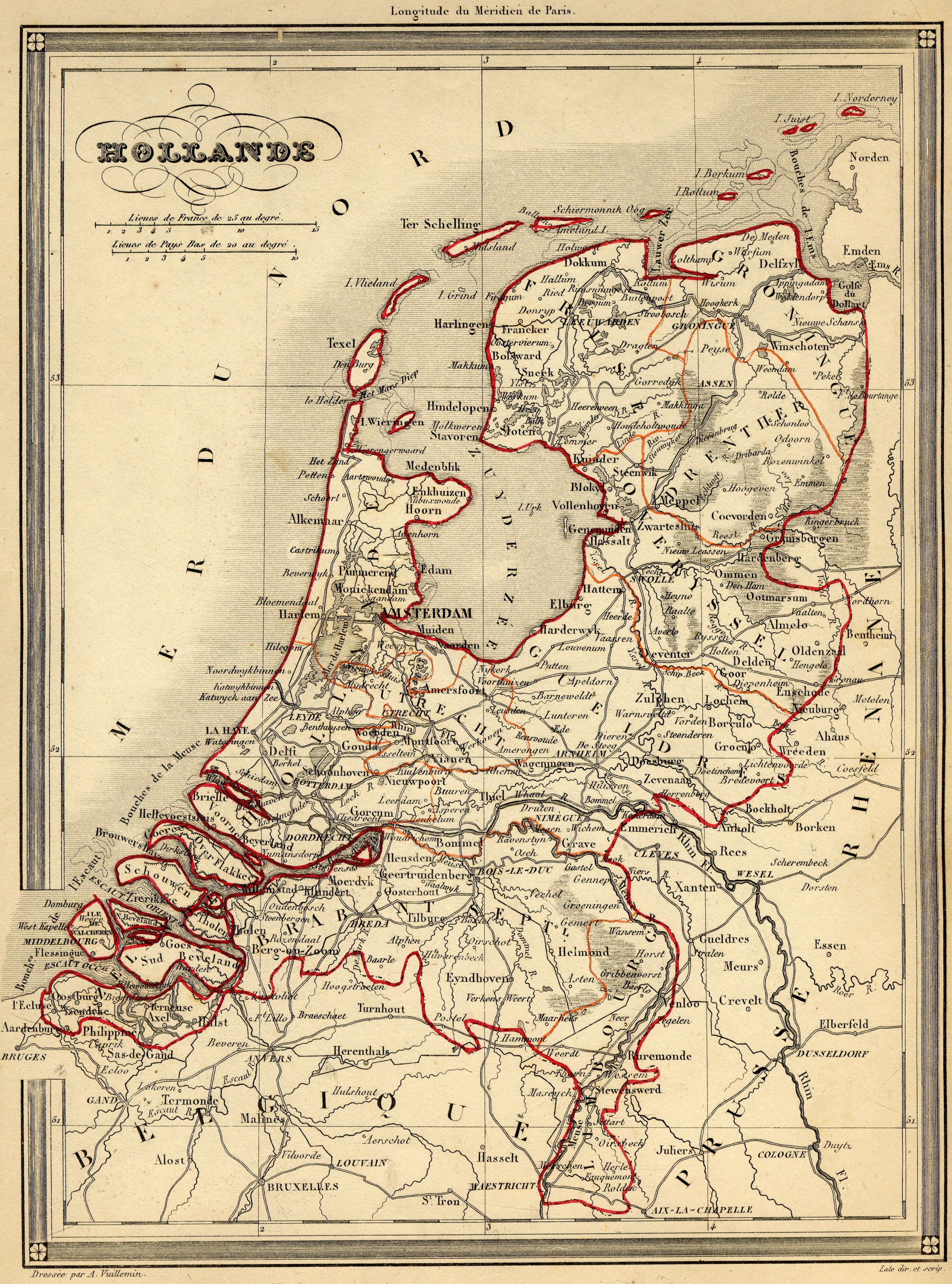 French map of the Netherlands (wp-EN). Made by Alexandre Vuillemin and taken from his "Atlas universel de géographie ancienne et moderne à l'usage des pensionnats", 1843.